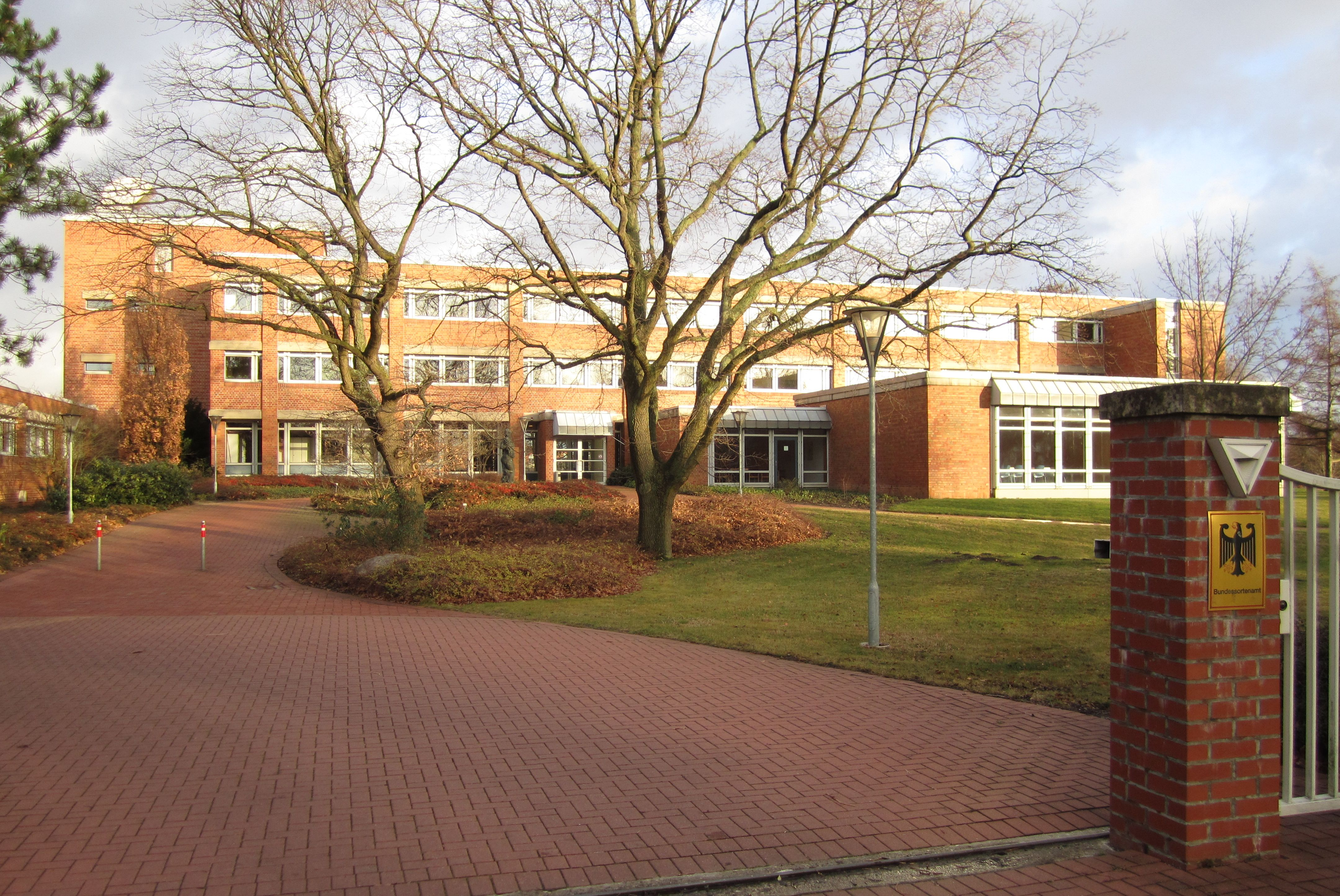 Bundessortenamt (a federal authority responsible for granting of Plant Breeders' Rights, the registration of varieties and for variety and seed affairs), Hanover, Germany.